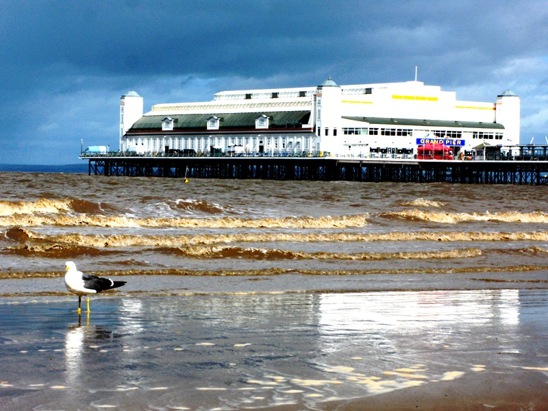 Grand Pier, Weston-super-Mare from the south east with a strong wind behind the tide